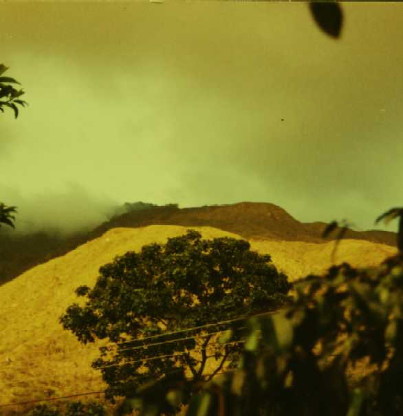 Section of the Henri Pittier National Park as seen from a hill in Maracay, Venezuela.